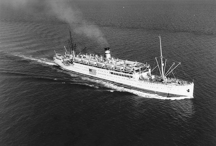 USAT U.S. Grant underway in Manila Bay, 11 May 1938. Photographed by the U.S. Army Air Corps Second Observation Squadron. Note the U.S. flag painted on her side.